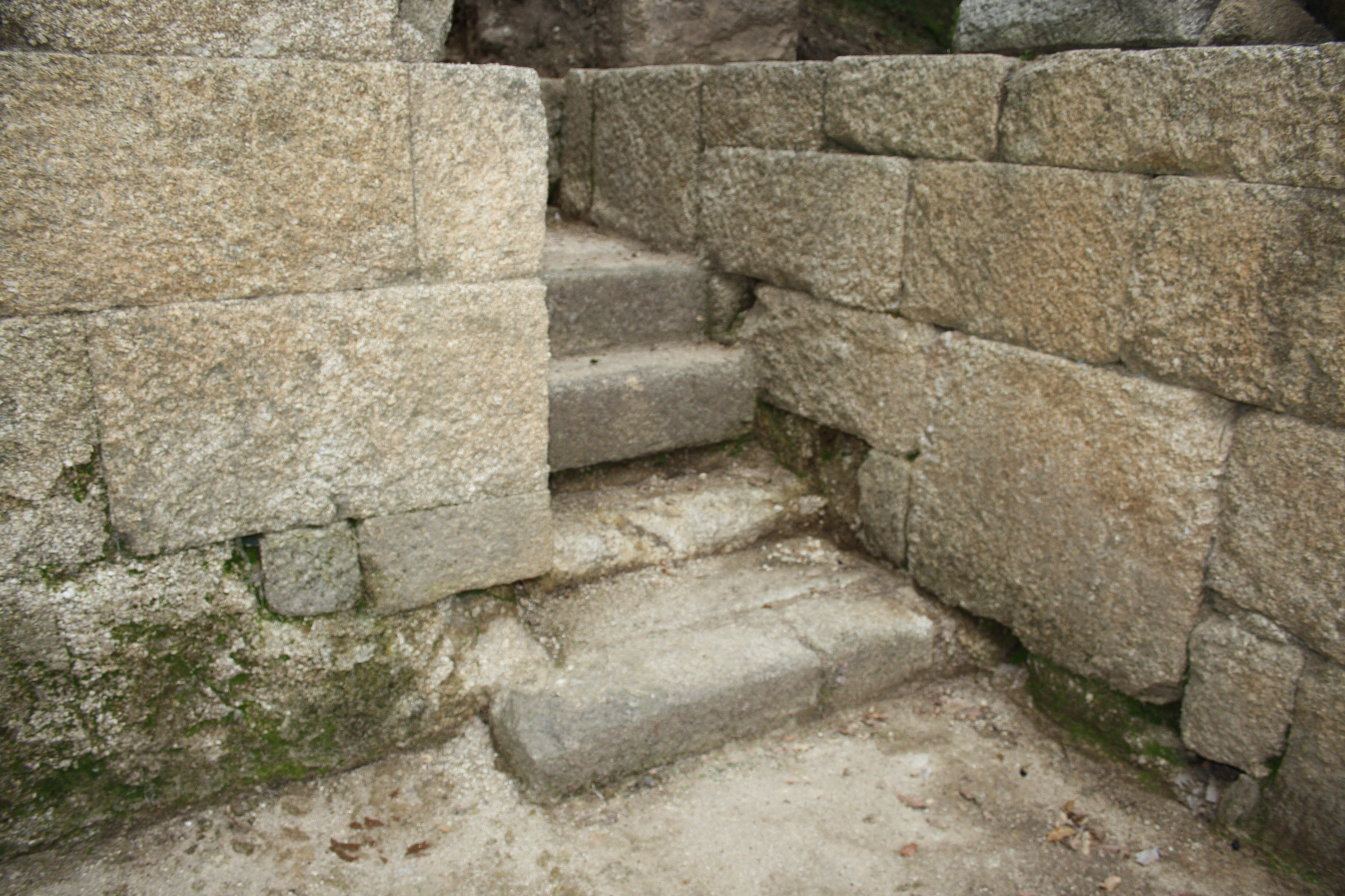 Kozi gramadi - fortress of Thracian Odrysee dynasty